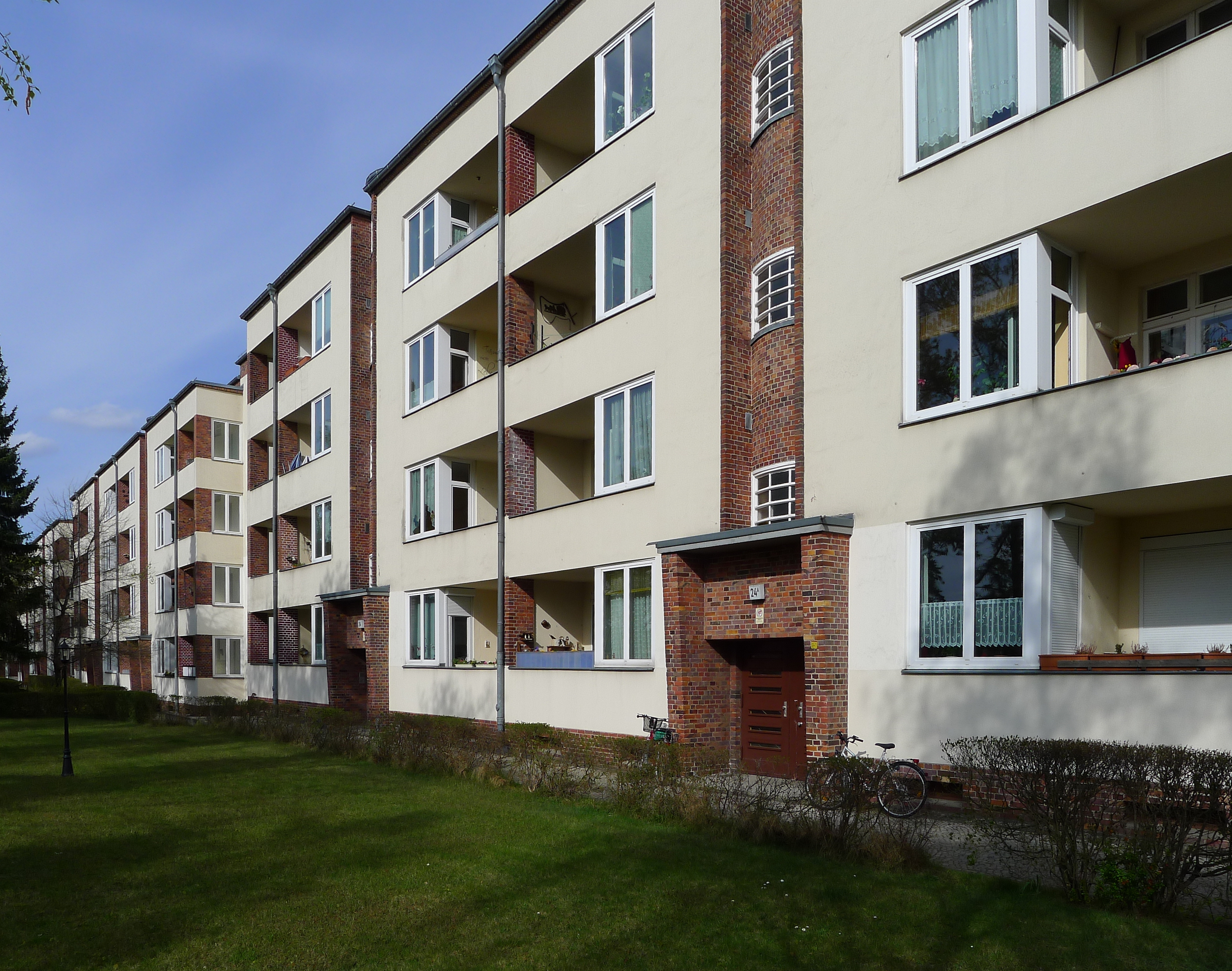 Wohnhaus